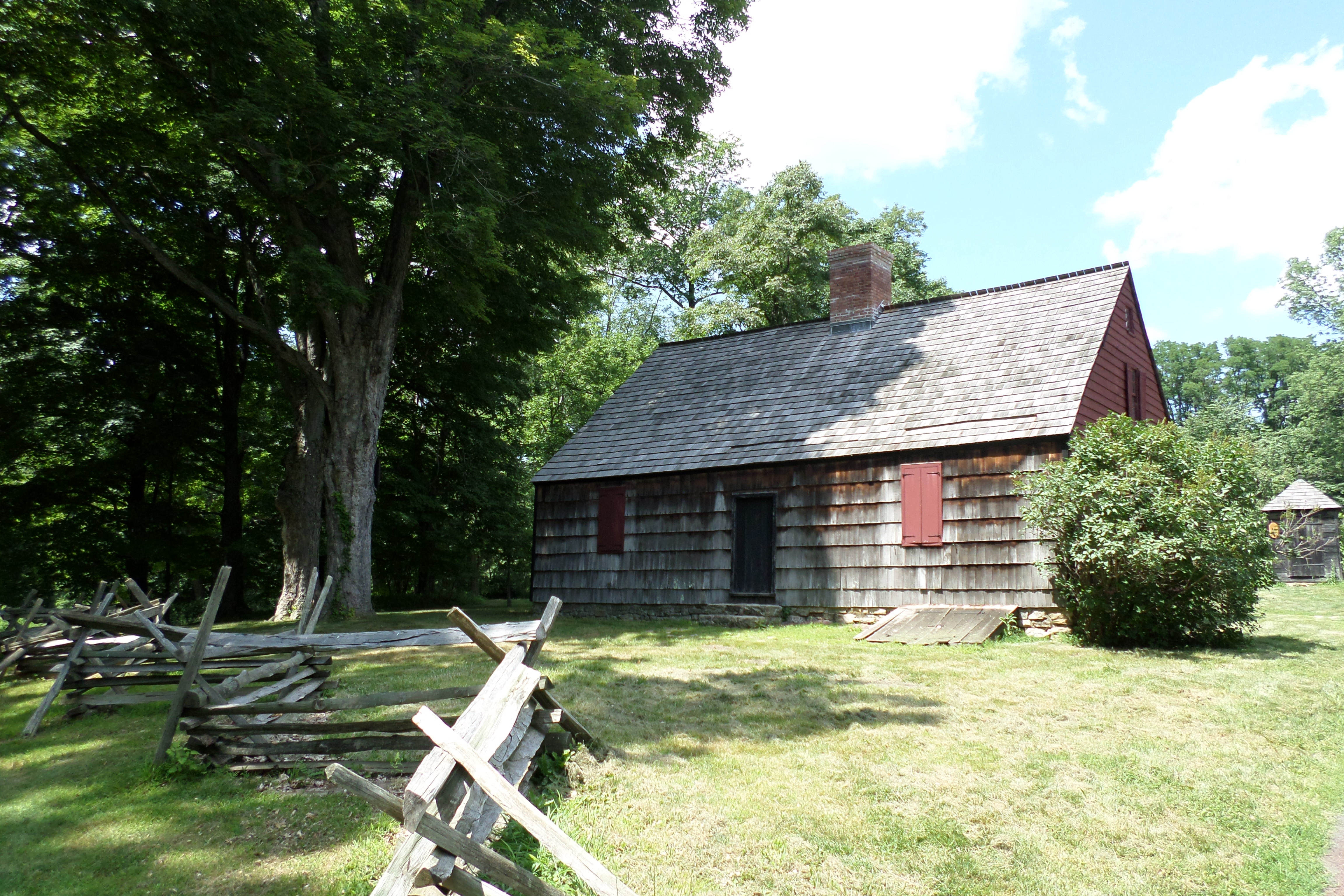 Wick House at Jockey Hollow, Morristown National Historical Park (July 2015)